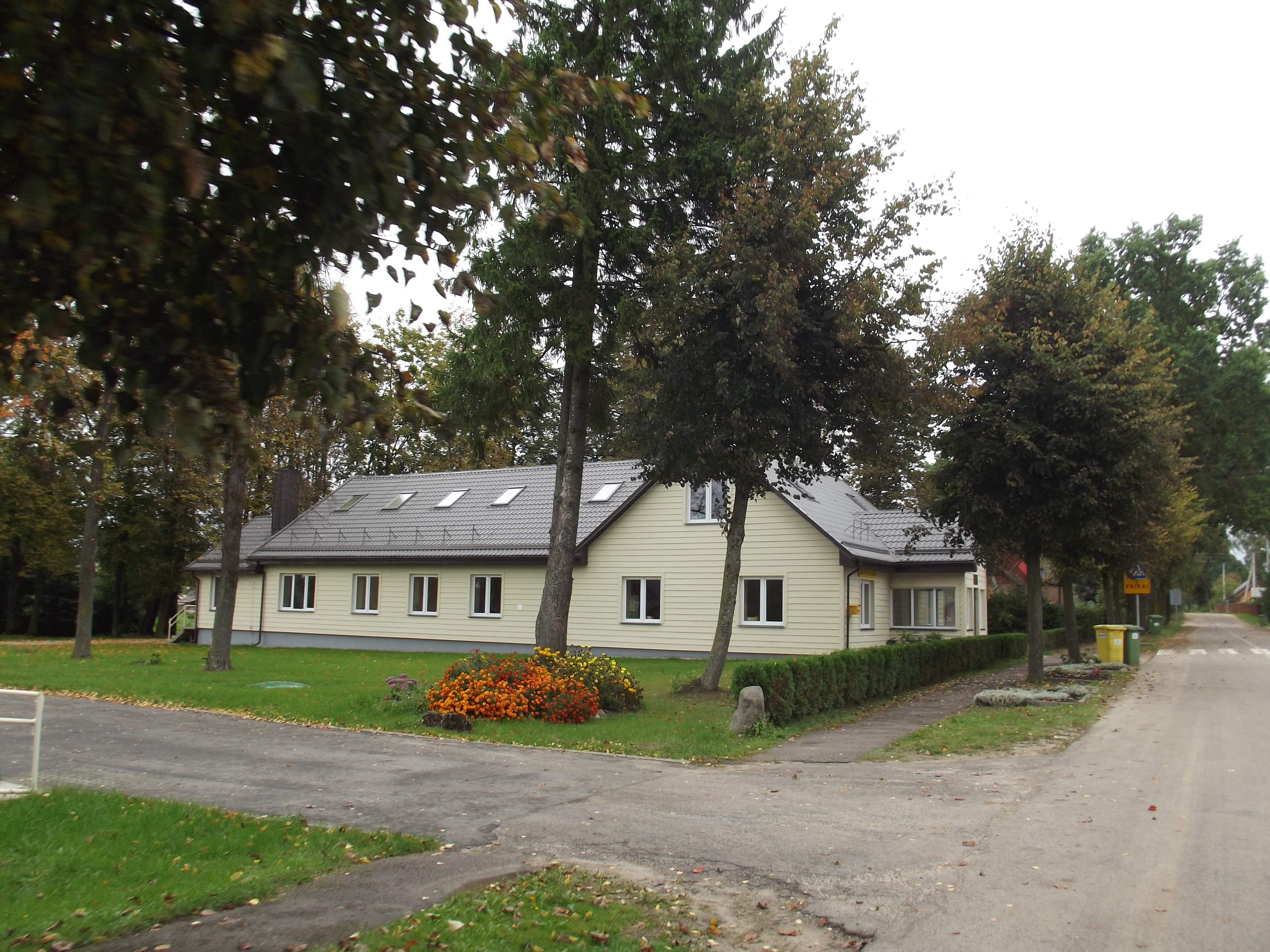 Jankai, Kazlų Rūda municipality, Lithuania